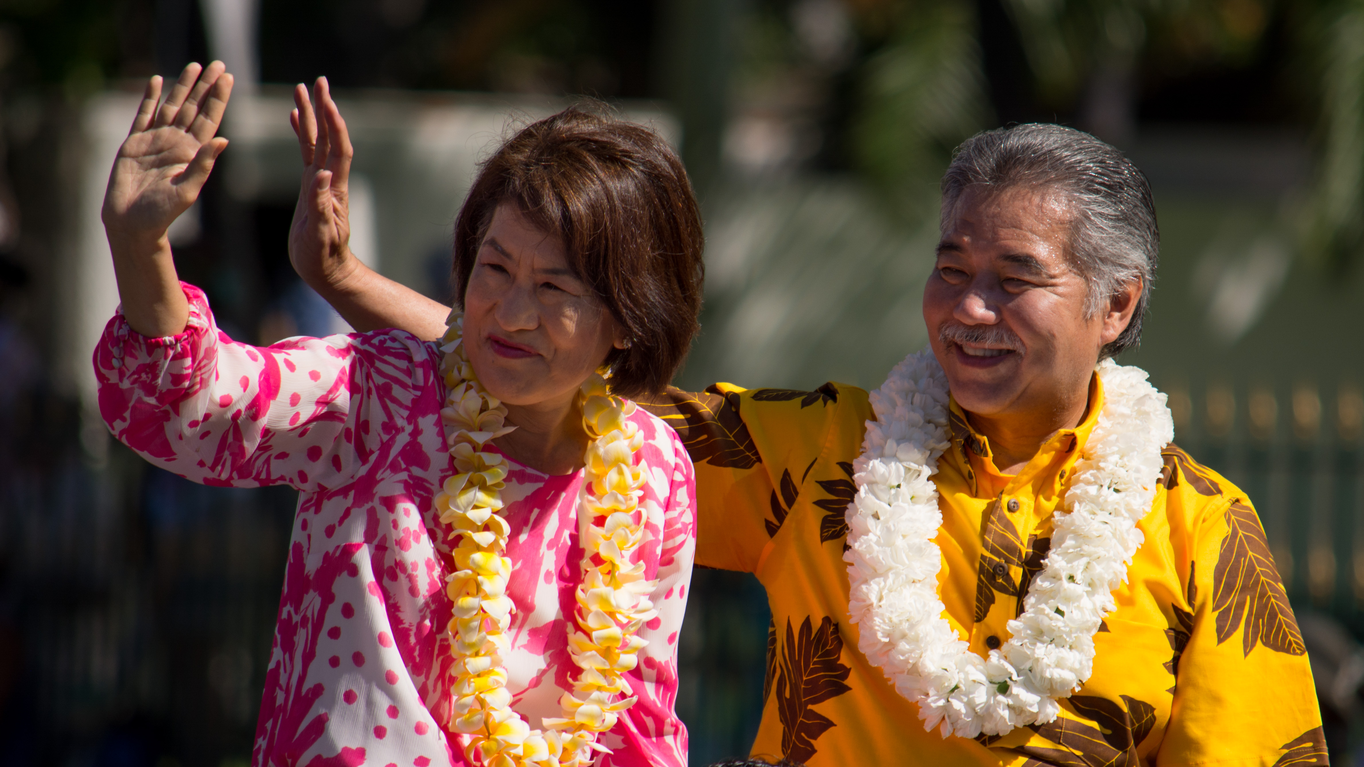 Dawn Ige, the First Lady of Hawaii, and Hawaii Governor David Ige, wave to spectators while riding in the 100th King Kamehameha Parade in 2016 in Honolulu.